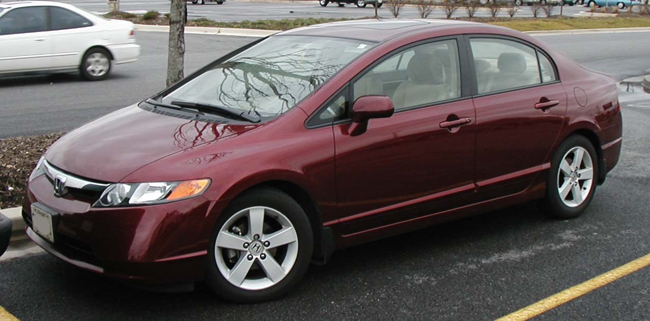 2006-2007 Honda Civic EX sedan photographed in USA.